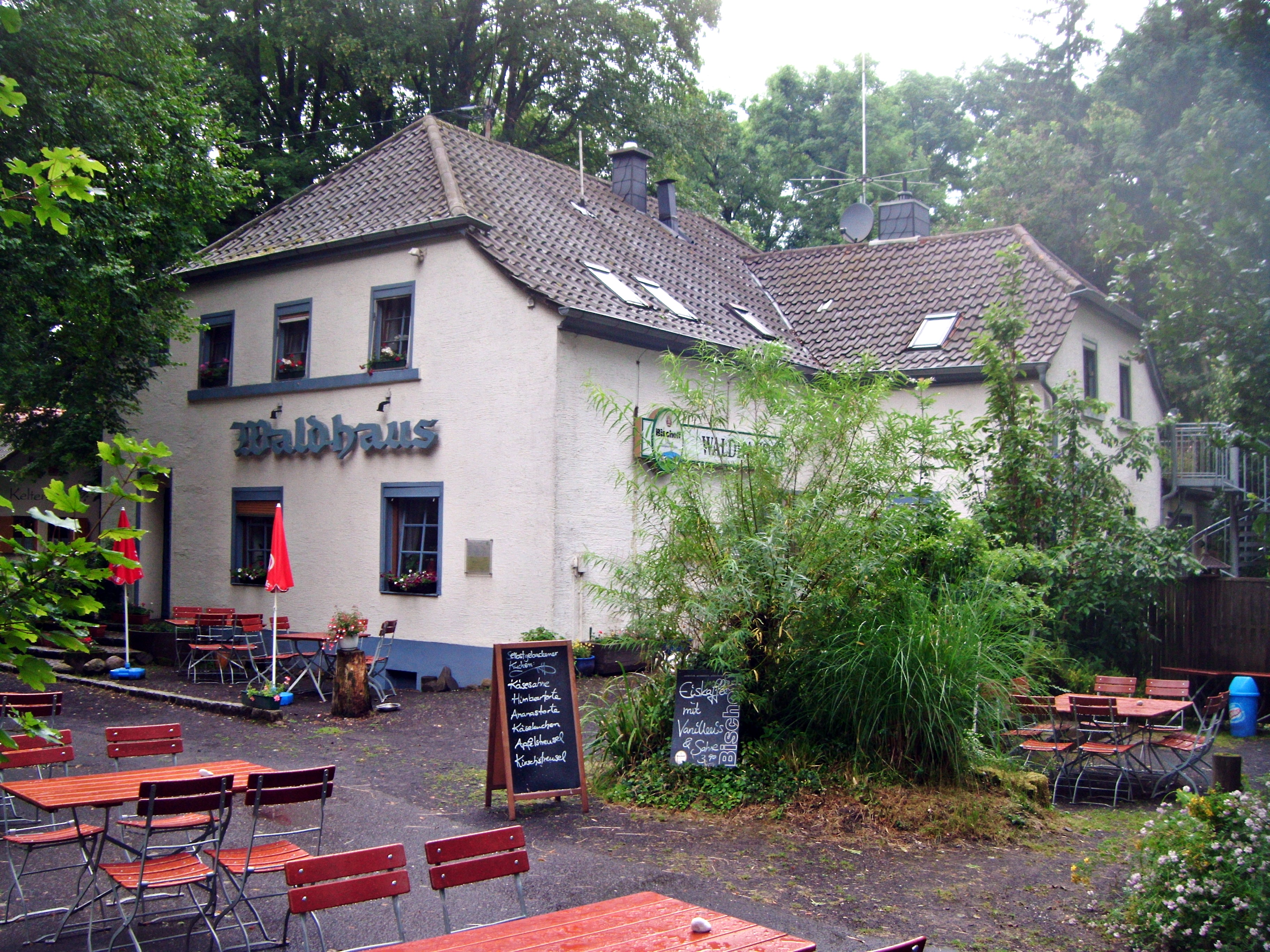 Donnersberg, Gaststätte Waldhaus